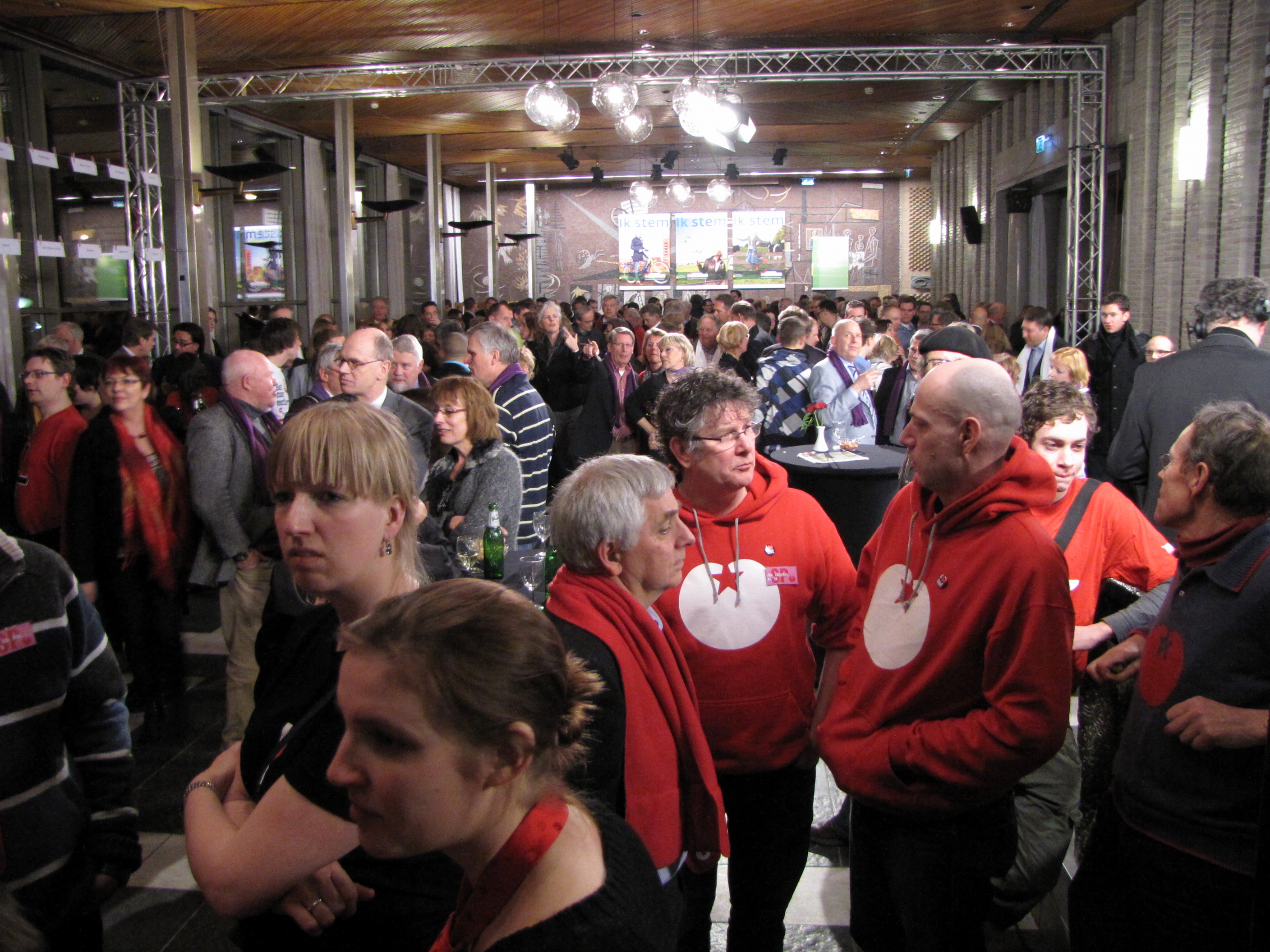 House of the Province Gelderland, Arnhem. Elections evening province parliament in 2011.